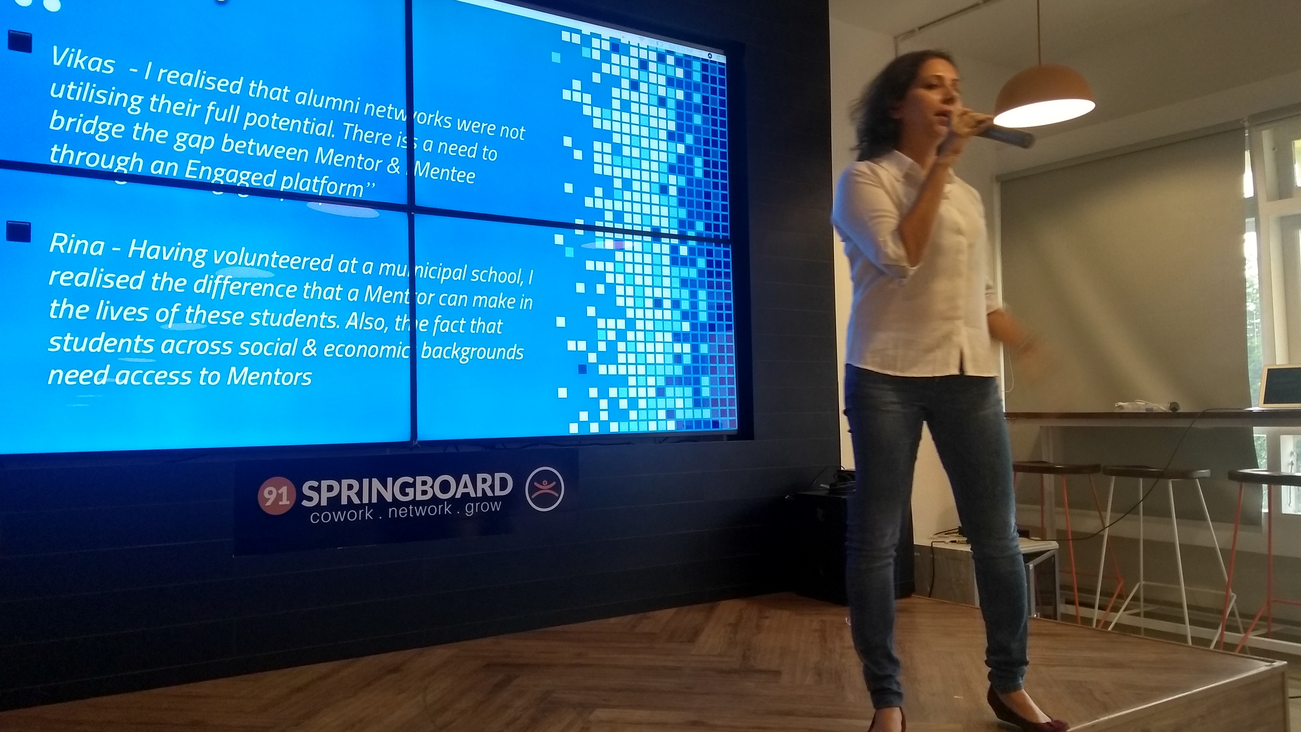 Startup event in Goa, May 2018. Held at 91Sprinboard in Panjim.